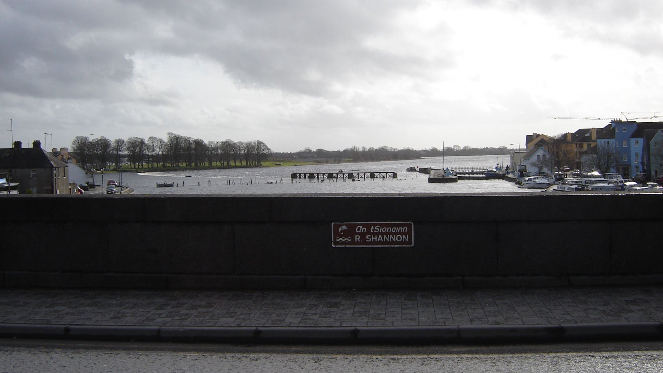 View across the bridge of the river Shannon in Athlone, Ireland.